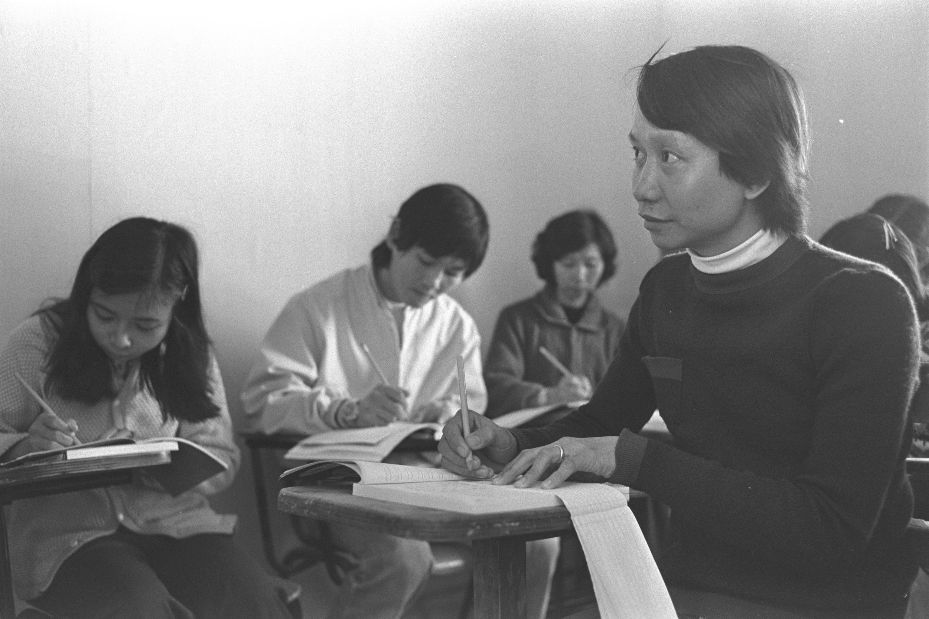 Vietnamese following the Hebrew teacher in the Ulpan at the Absorption Center in Afula. Photograph: Yaakov Saar (1951–) Alternative names SA'AR YA'ACOV; Jacob Saar; Saʻar, YaʻaḳovDescriptionIsraeli photographerDate of birth 1951 Authority control : Q28751896 VIAF: 298161188 NLI: 001394176 creator QS:P170,Q28751896 GPO. 04/02/1979